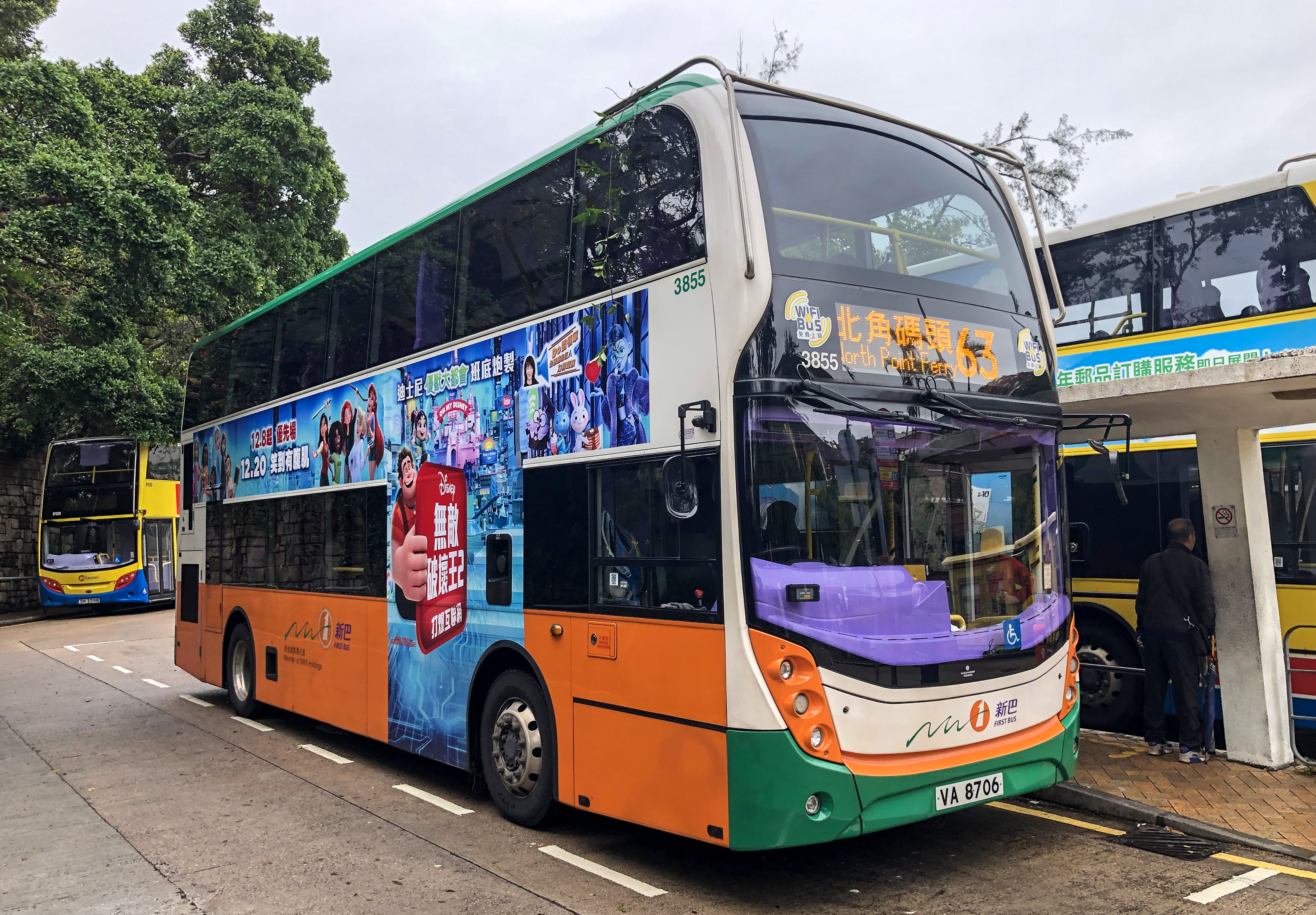 Just rode this fellow on route 9 on Saturday...